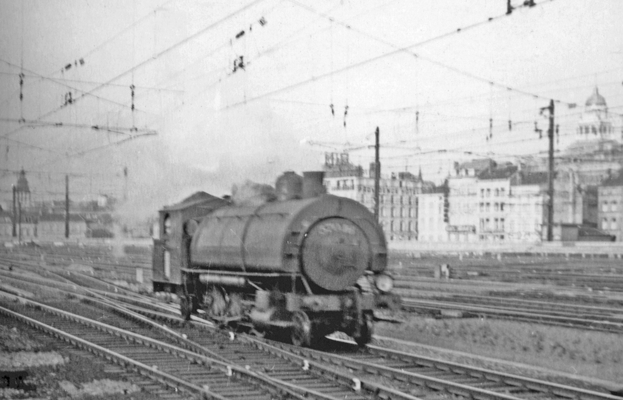 Class 57 0-6-0 Saddle-Tank at Bruxelles Midi, south end.